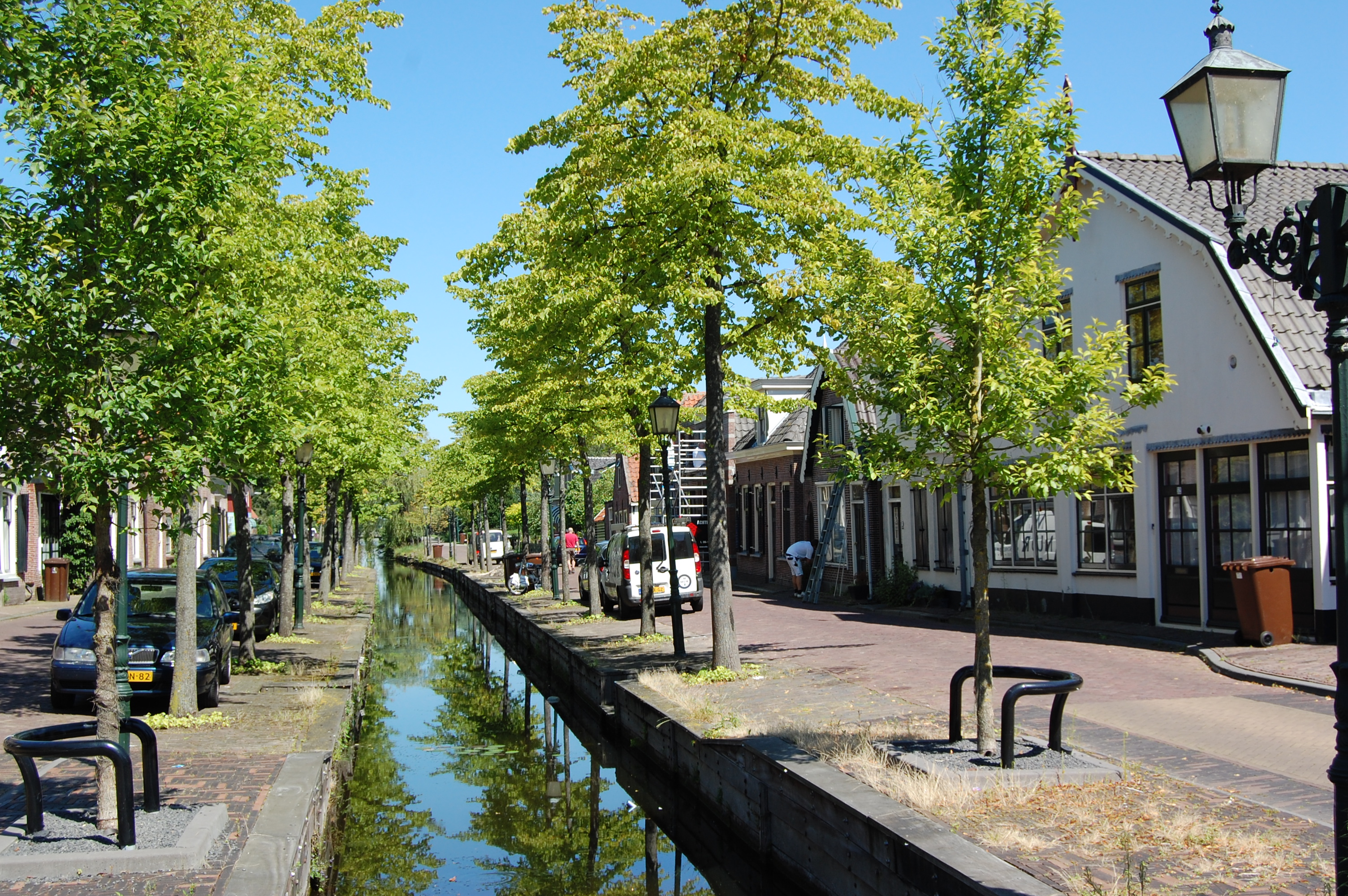 Kamerikse Wetering through the village Kamerik